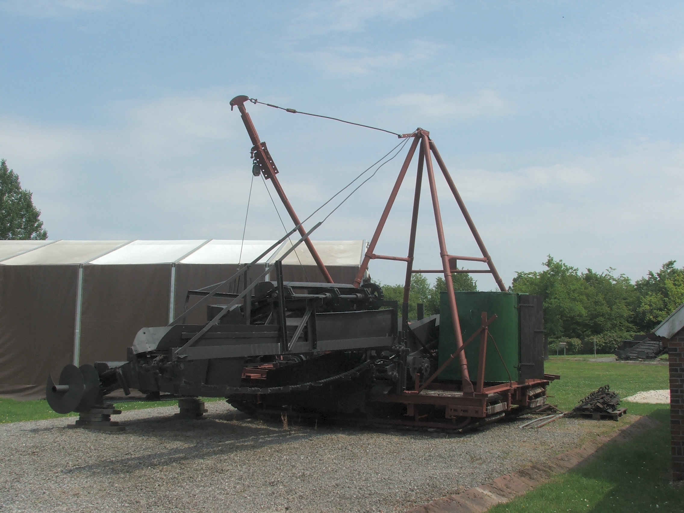 Peat hoist at Torf- und Siedlungsmuseum, Wiesmoor, East Frisia, Germany